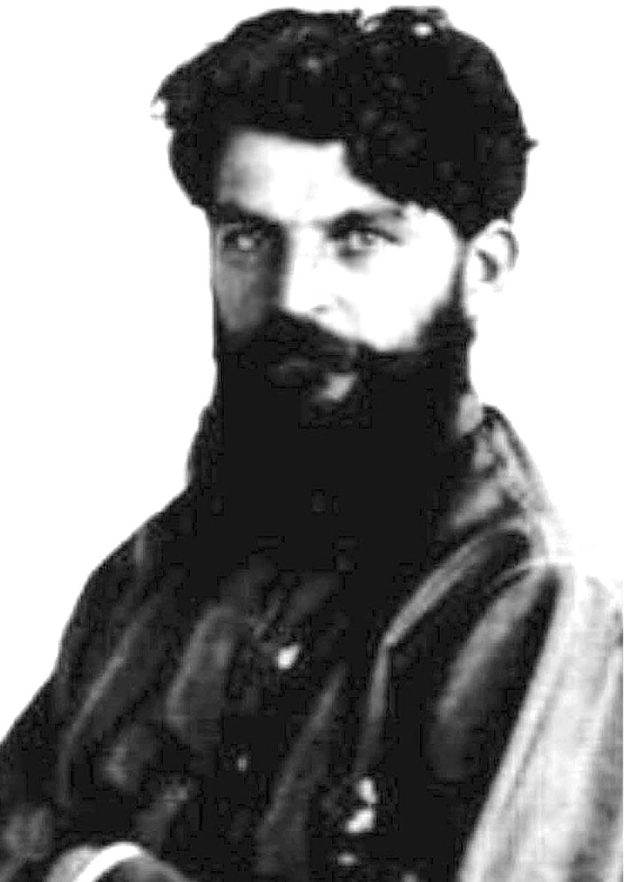 Nicola Bombacci